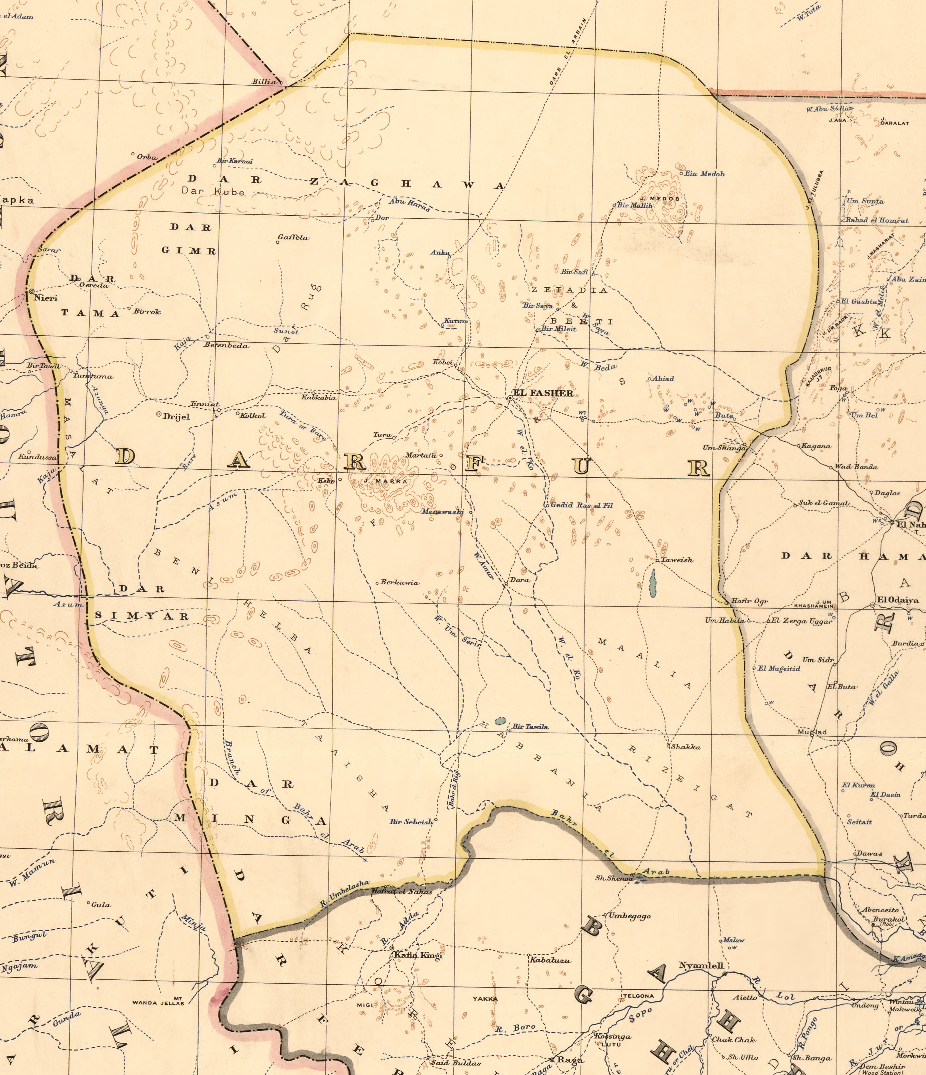 Map of Darfur in July 1914